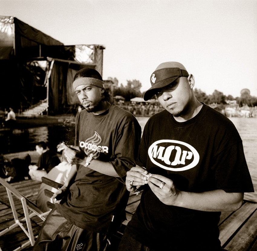 Samy Deluxe (left) and D-Flame, SPLASH festival 2000